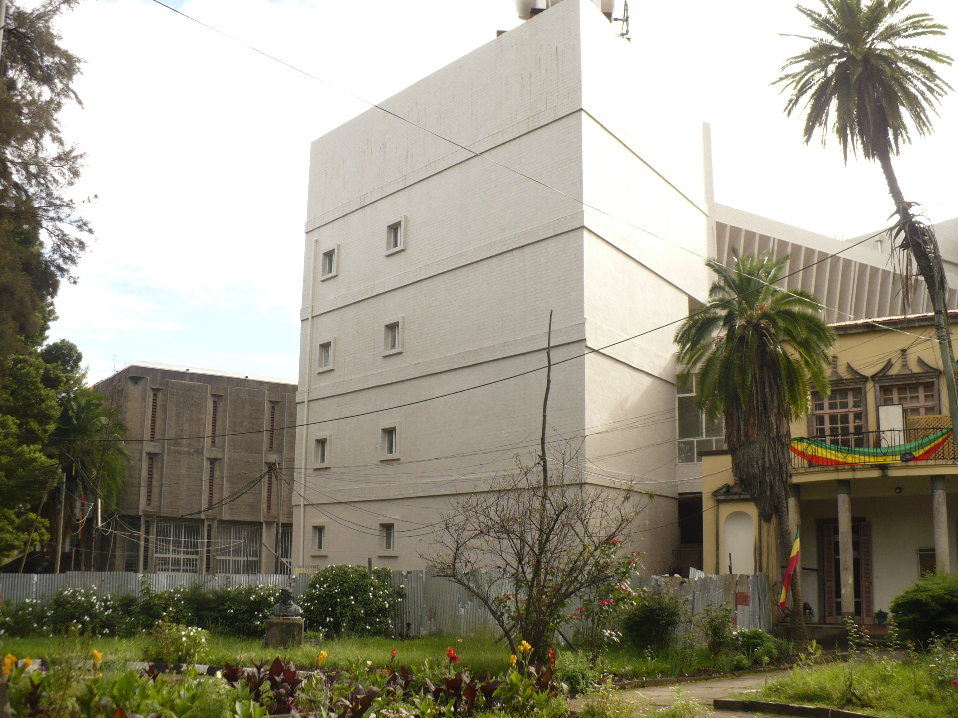 New facility of the National Museum of Ethiopia, Addis Ababa, with the current offices on the right, and the museum gallery on the left.